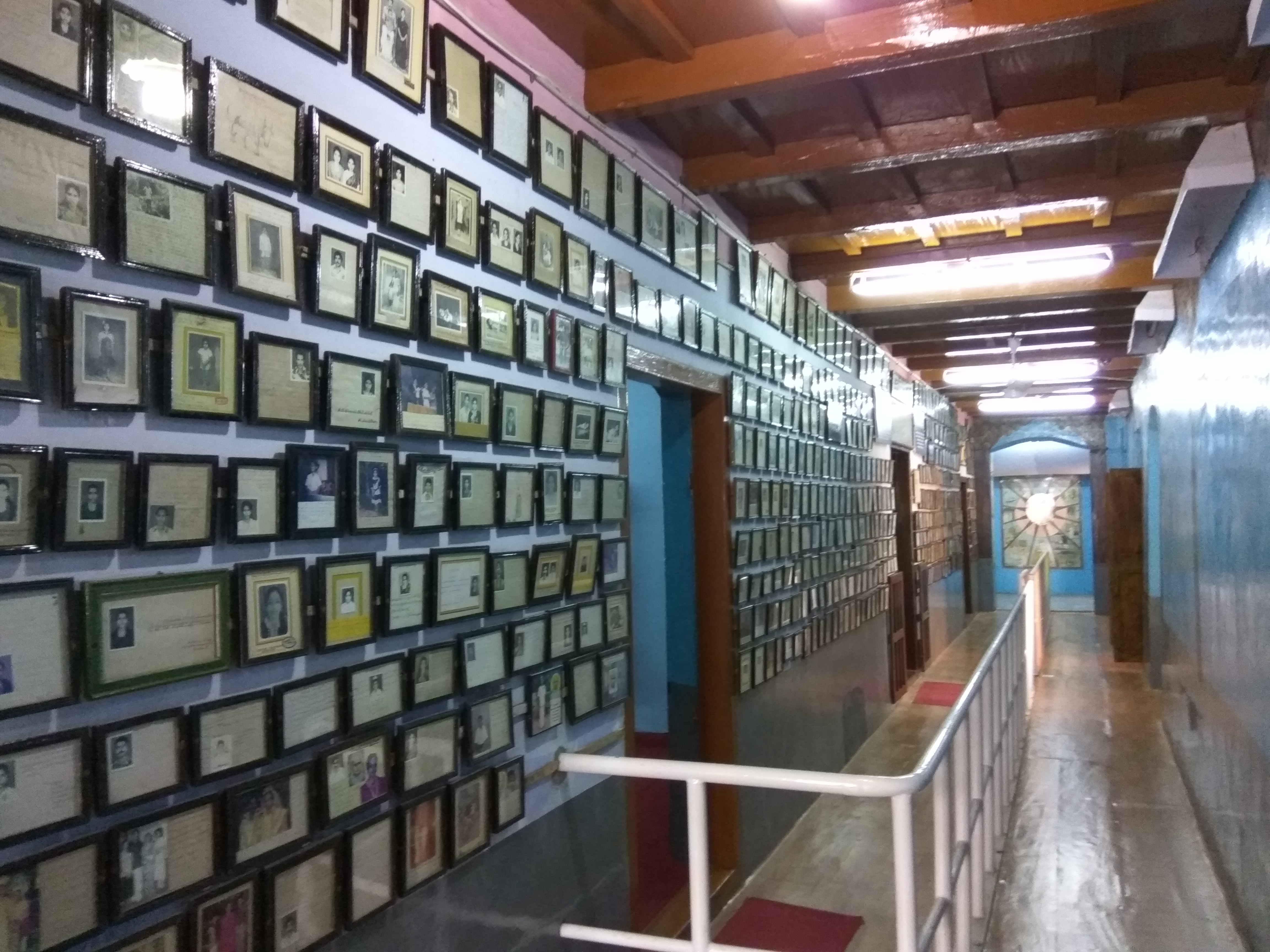 Framed accounts provided by faithful attributing deeds to the intercession by St Kuriakose Chavara outside his room